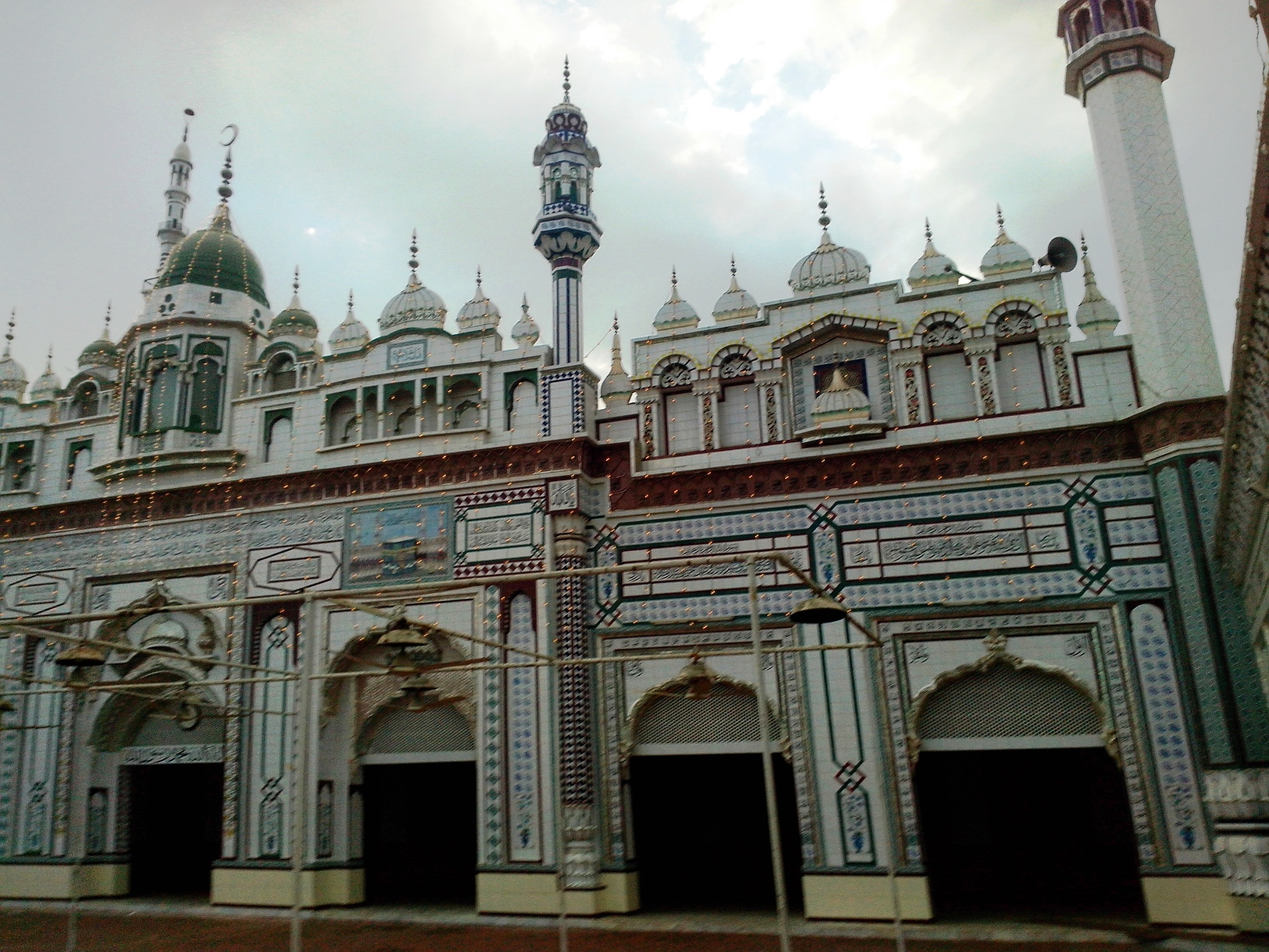 Interior of Beautiful Sunni Mosque at Main Road Tariq Bin Zyad Colony, Sahiwal